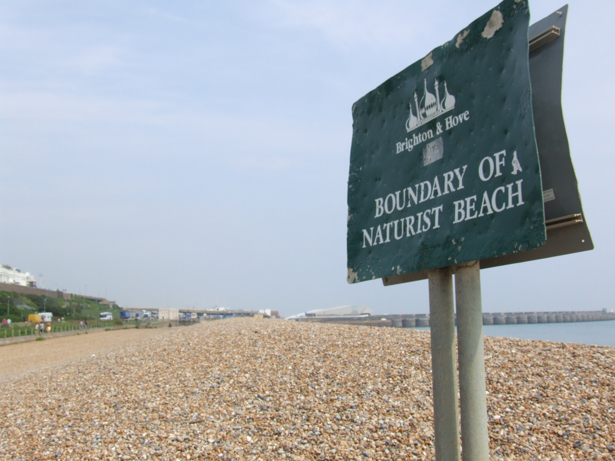 Brighton. Dukes Mound, Madeira Drive. The Naturist section of the beach is protected by an artificial bank of shingle, and is signed in the usual way.